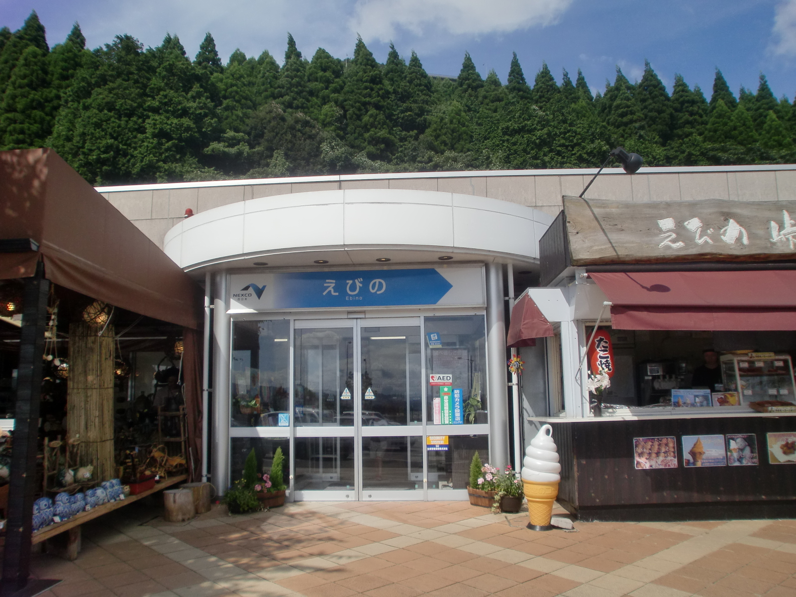 Ebino Parking Area